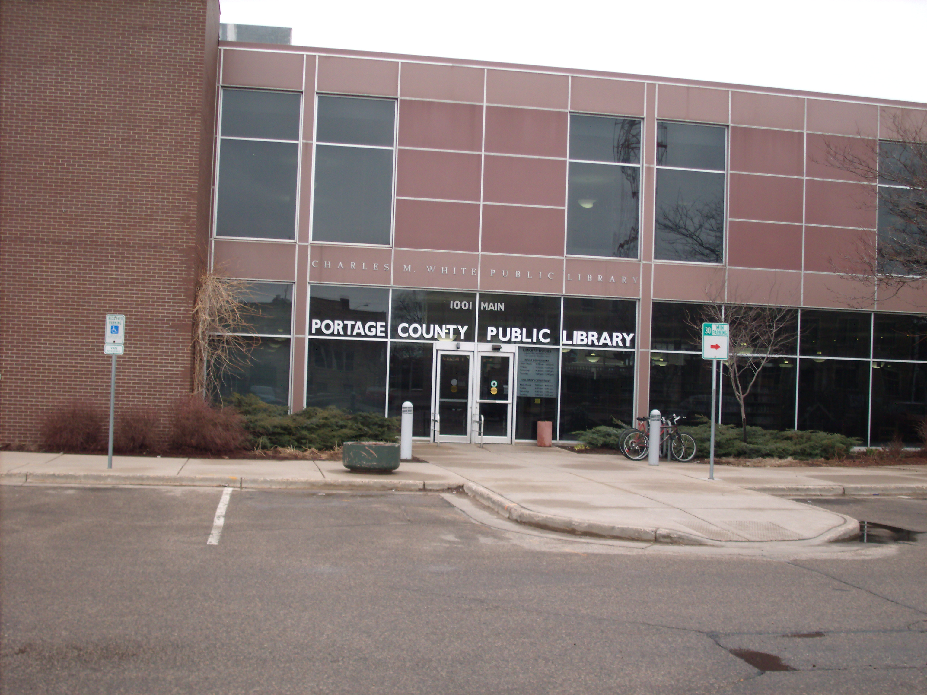 This is an image of the Clark Street entrance to the Portage County Public Library Main Branch in Stevens Point, Wisconsin.